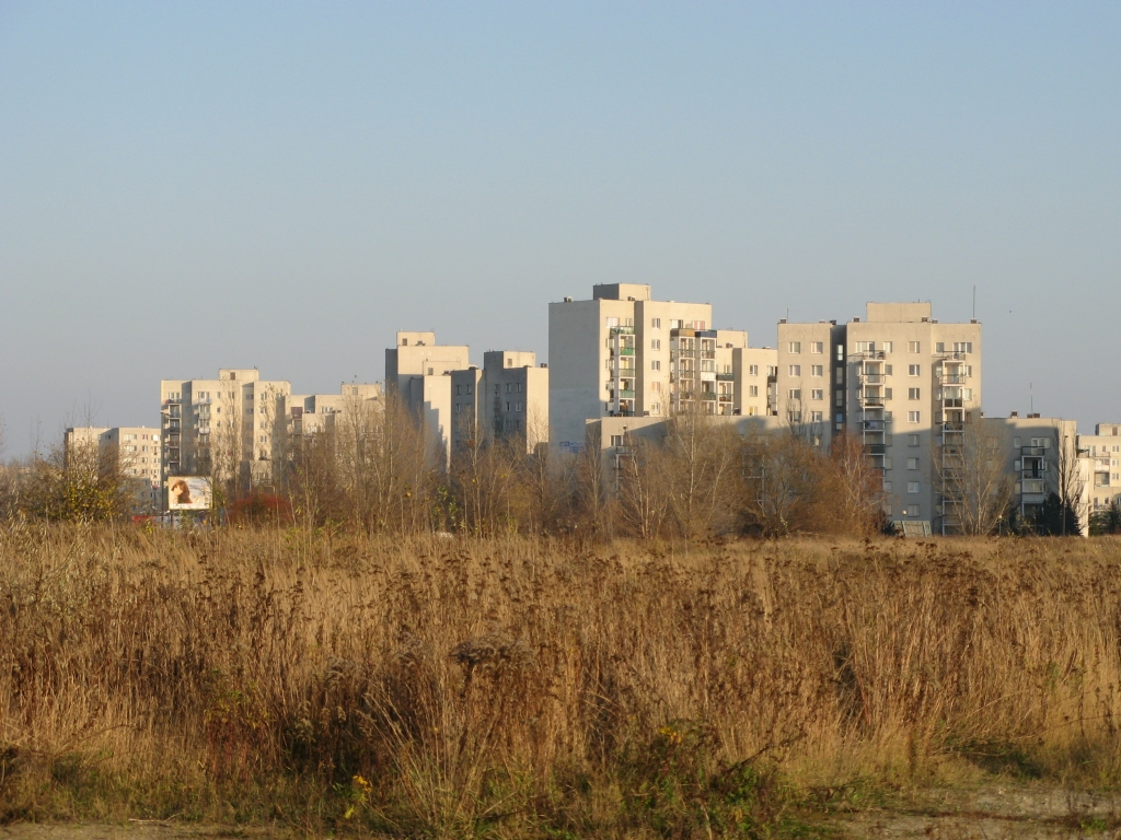 Apartment blocks at Kazury-Street, Warsaw, Poland